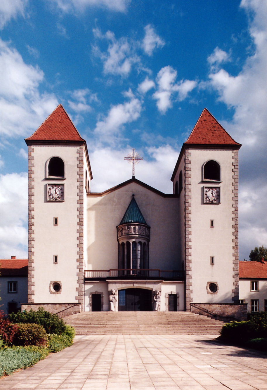 Church of Gmünd-Neustadt